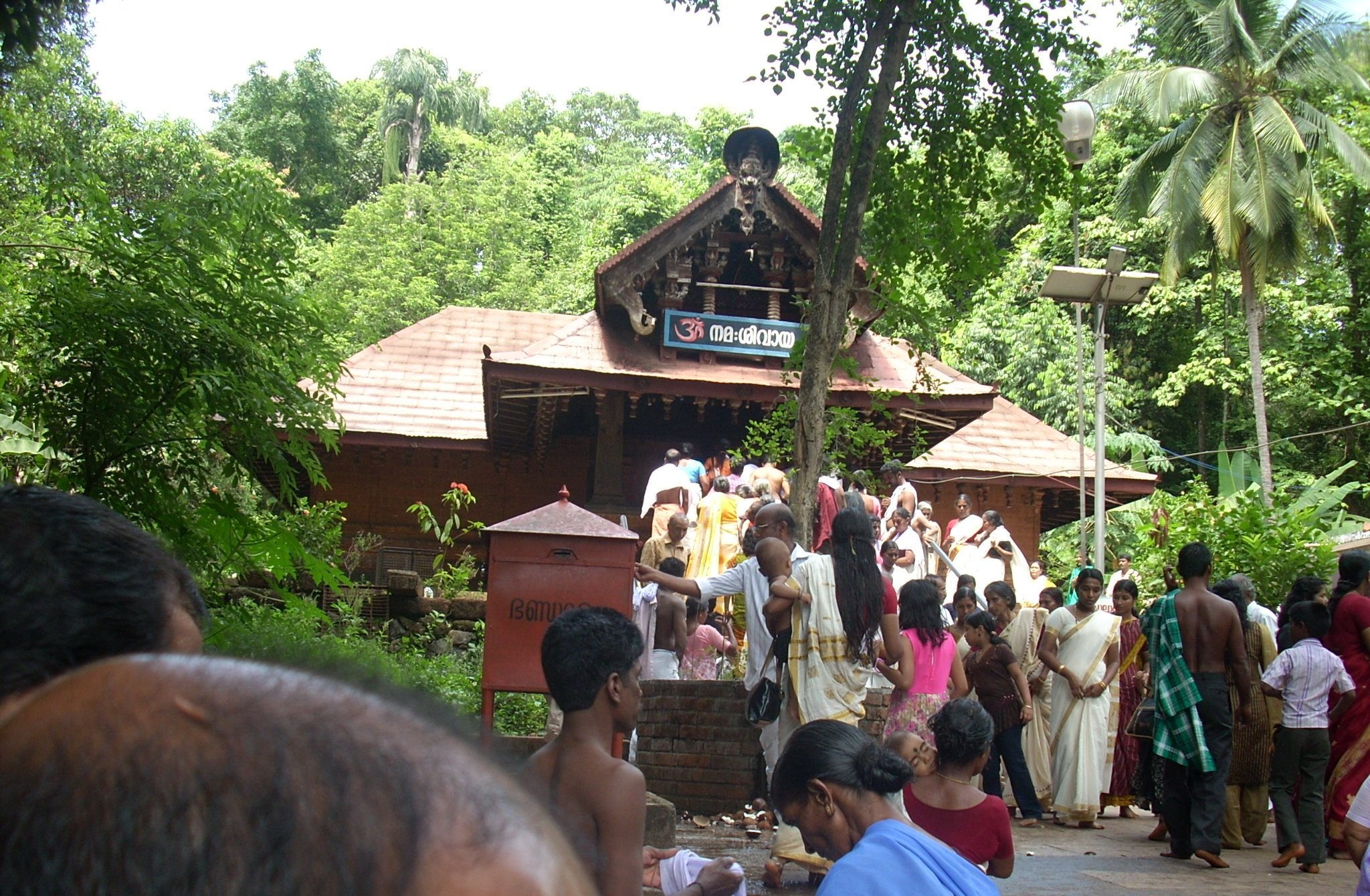 Ikkarekottiyur temple